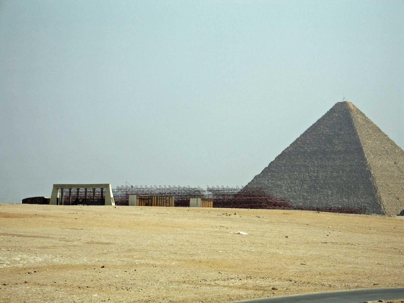 The Great Pyramid of Cheops and scene for Giuseppe Verdi "Ayda"